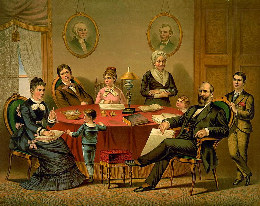 President James A. Garfield and his family seated around table; portraits of Washington and Lincoln on wall in background.